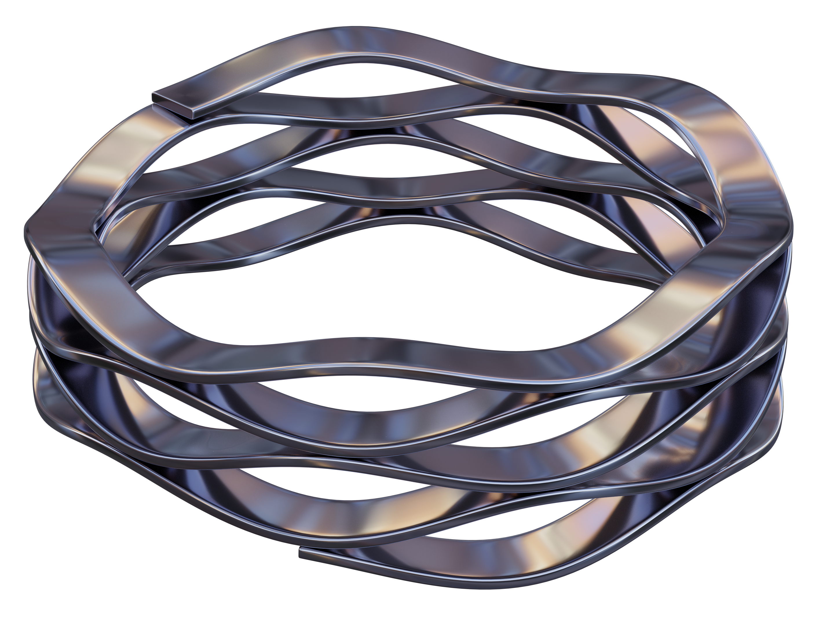 A multi-turn wave spring with plain ends, i.e. without flat (shim) ends.